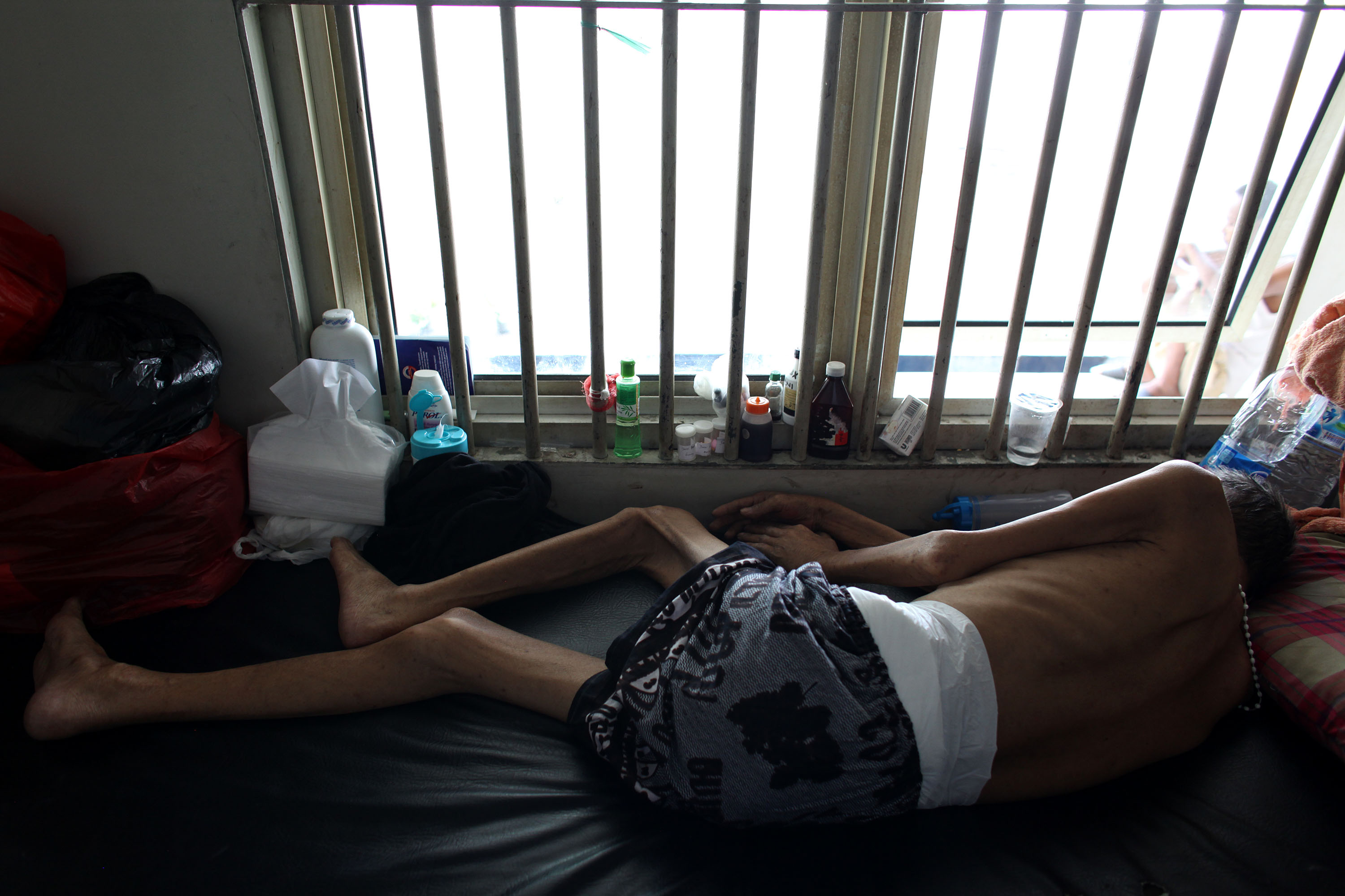 HIV positive prisoner in Cipinang Narcotics Prison, Jakarta. Photo by: Josh Estey to request a high resolution original.